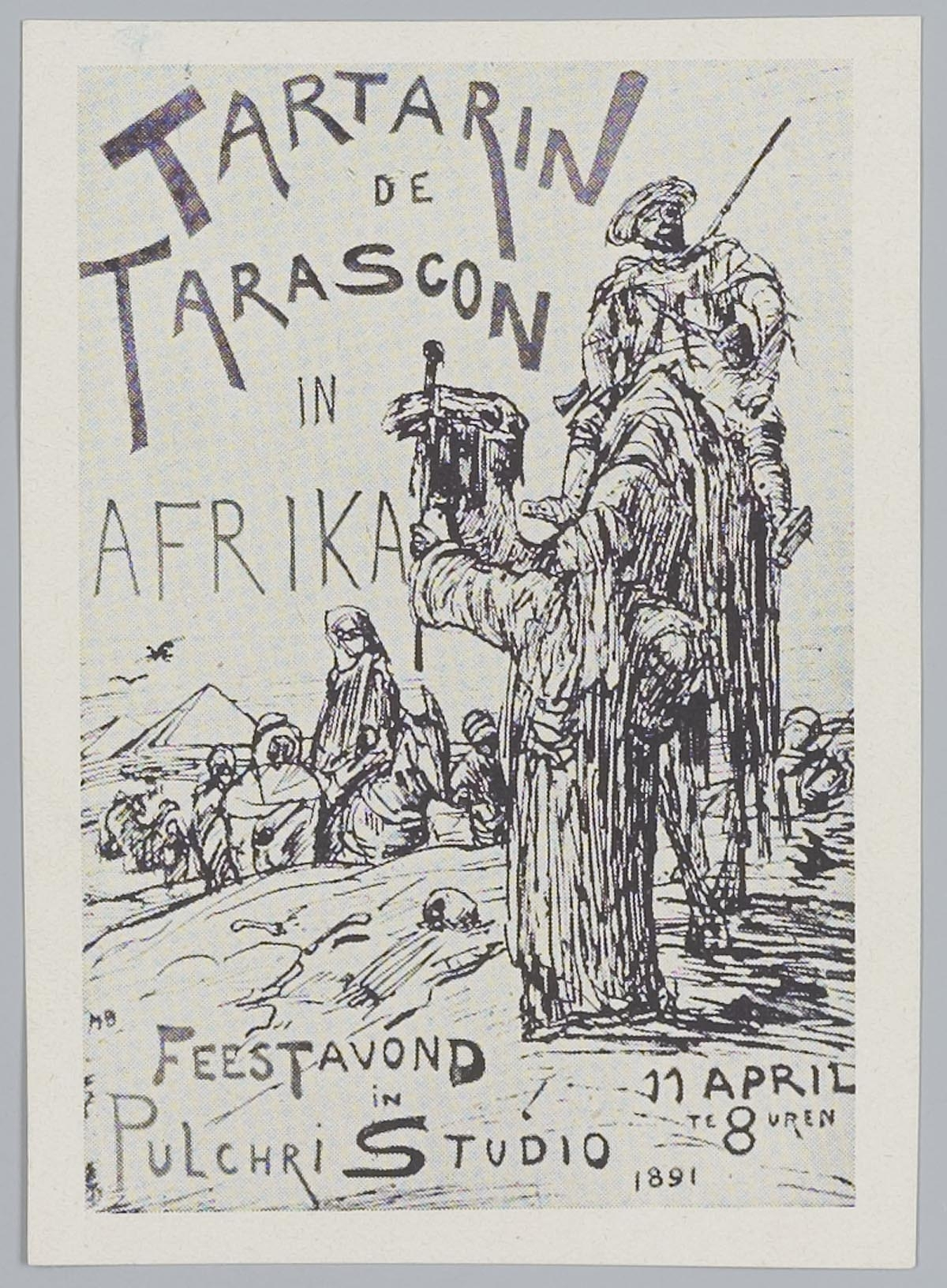 Poster for festive evening about "Tartarin of Tarascon"